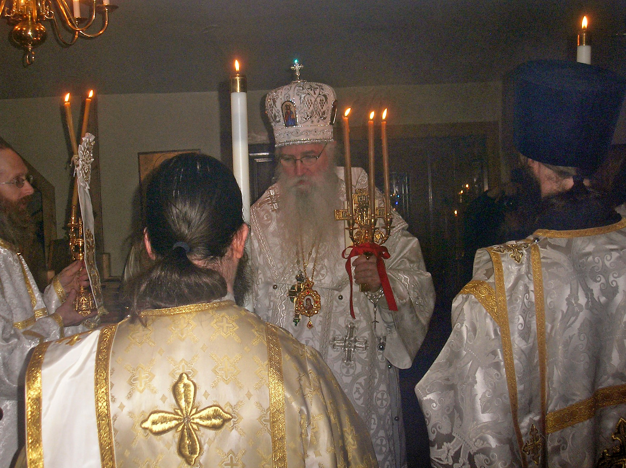 An Orthodox Bishop holding the paschal trikirion in his left hand while censing, the latter obscured by a deacon; two deacons with their backs to the camera are each holding single large paschal candle.